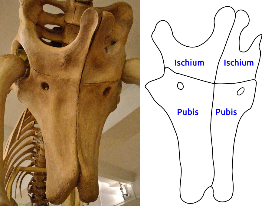 Opisthocoelicaudia skeleton. Museum of Evolution in Warsaw.